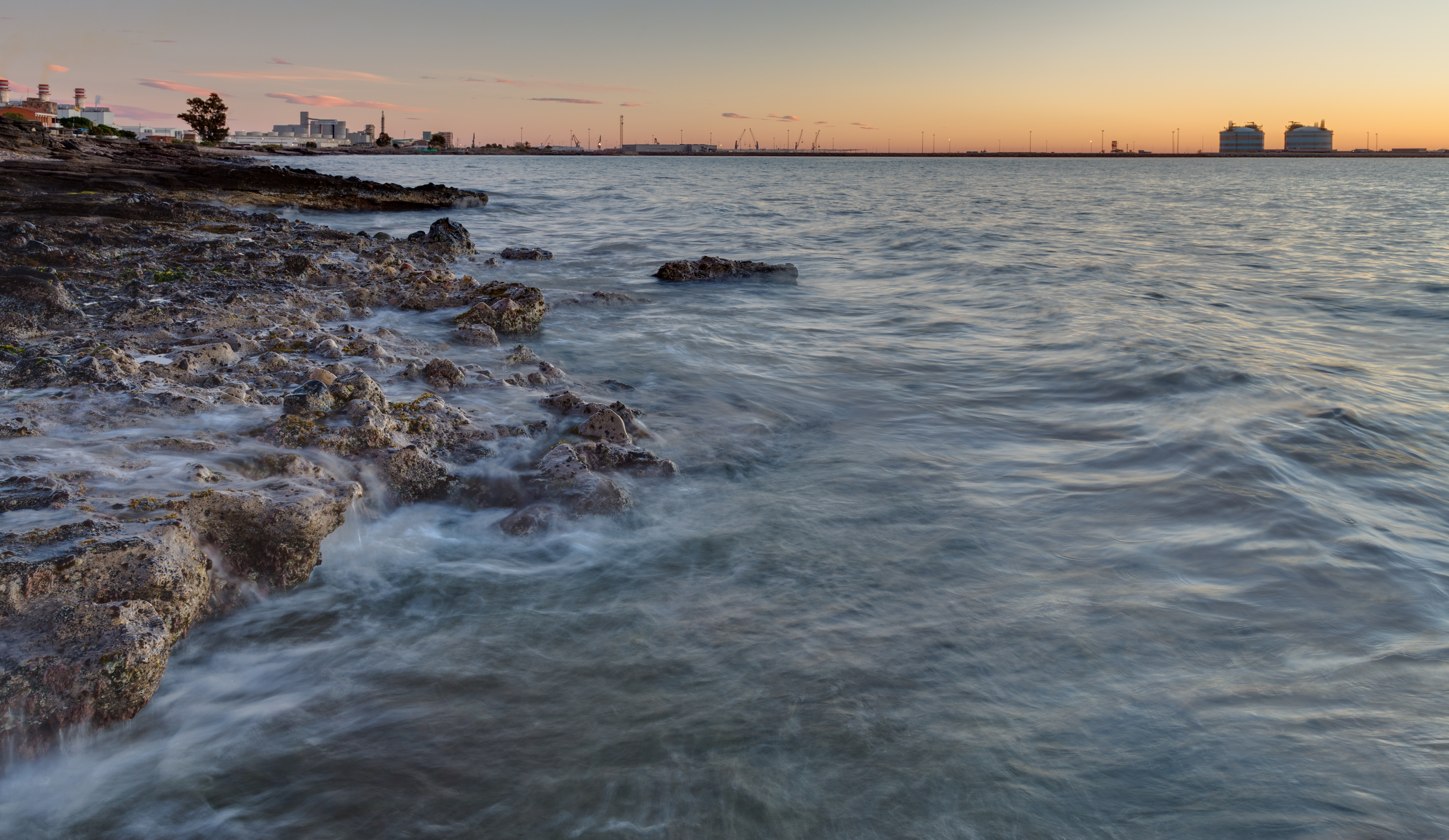 Grau Vell, SCI Marjal del Moro, Valencia, Spain